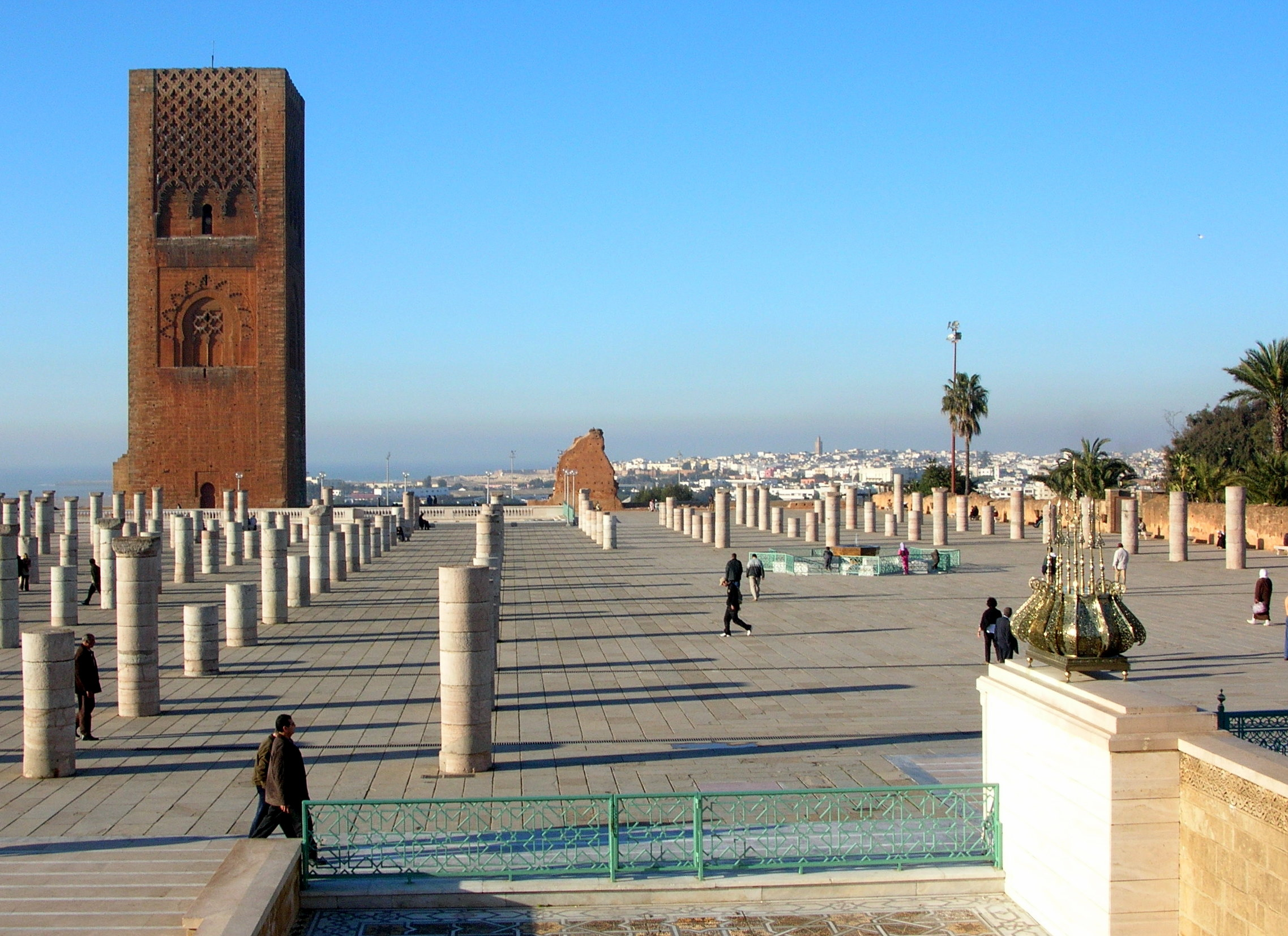 Hassan Tower, Rabat, Morocco. View towards the north-west from a point between the Mohamed V mausoleum (right, back) and Al Hassan mosk (left, back). The Hassan tower was a part of a very large mosk ; the broken pillars in front of the view used to support its roof.